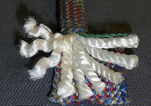 Internal structure of 10.7mm dynamic kernmantle climbing rope. The rope is composed of a 40 strand "two-over-two" braided sheath and a core made from seven 3-ply yarns with a single green tracer strand running parallel to the core yarns. Note that four of the seven core yarns are S-twist (left-handed) and three are Z-twist (right-handed). In this image the three plies of the left-most core yarn are spread apart. Sample from trimmed end of a used climbing rope.